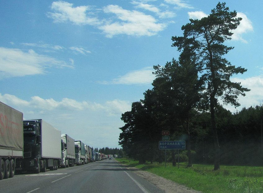 M11 highway in Belarus near Lithuanian border. Trucks on the opposite lane are queuing to get to the border control (BY-LT).